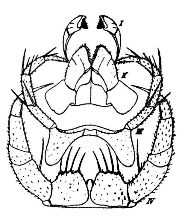 Gnathites of Scutigera. I. Mandibles. II. Maxillae. III. Palpognaths. IV. Toxicognaths. After Latzel, Die Myr öst-ung. Mon. vol. i. “Chilopoda,” Vienna, 1880.